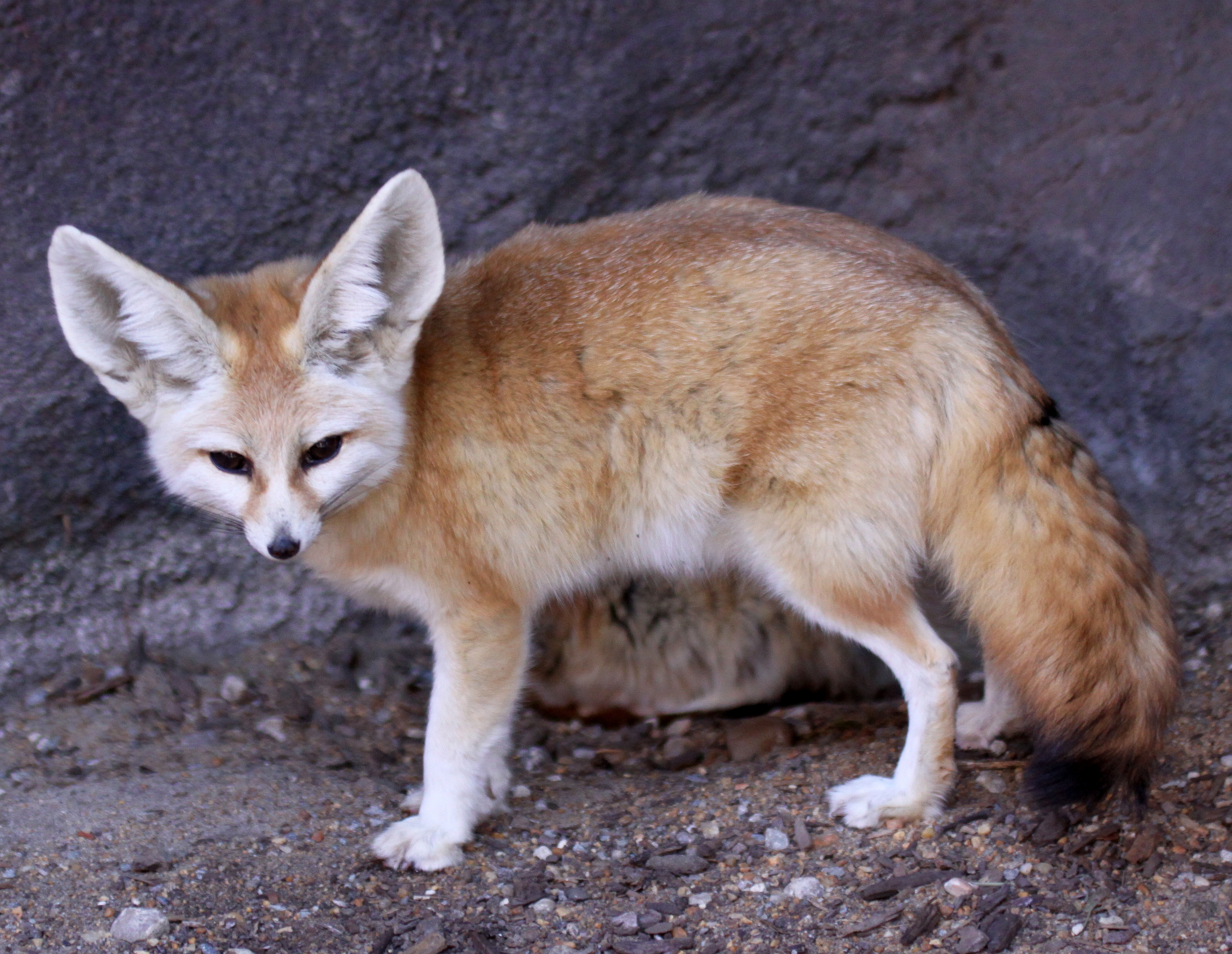 Fennec (Vulpes zerda), Norfolk Zoo